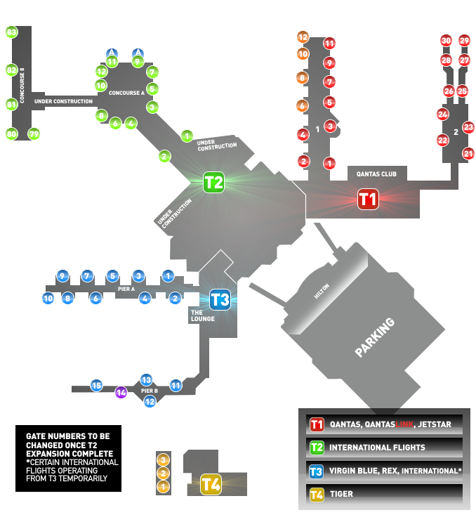 Melbourne Tullamarine Terminals